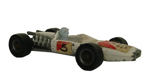 Efsi - B.R.M. F1 auto Licensing Categorie:Afbeelding modelbouw